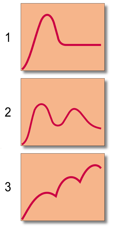 Product life cycle (3 charts)